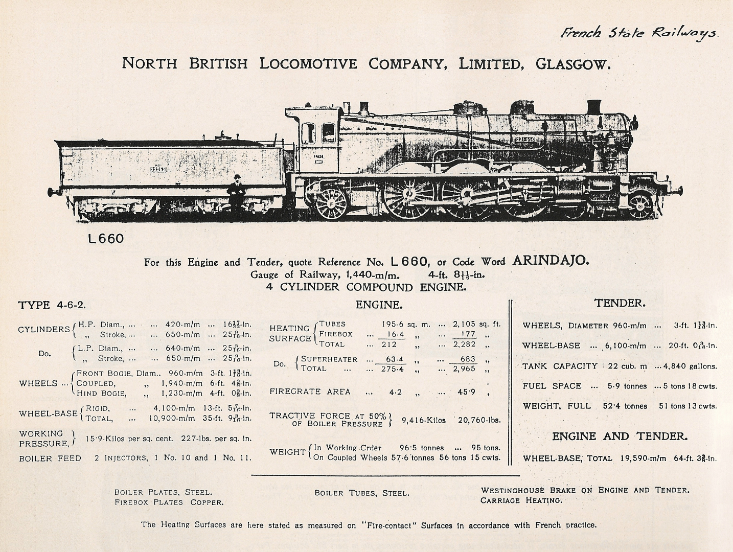 1916 North-British Locomotive Company advertisement.